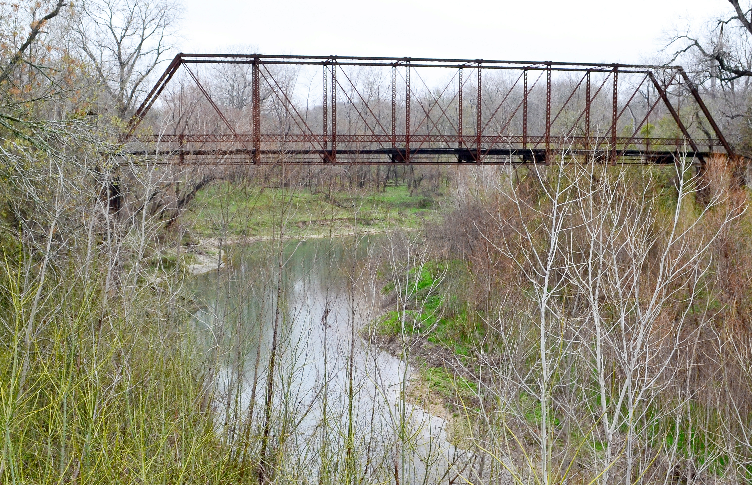 Sunshine Road Bridge over Little River, Bell County, Texas.